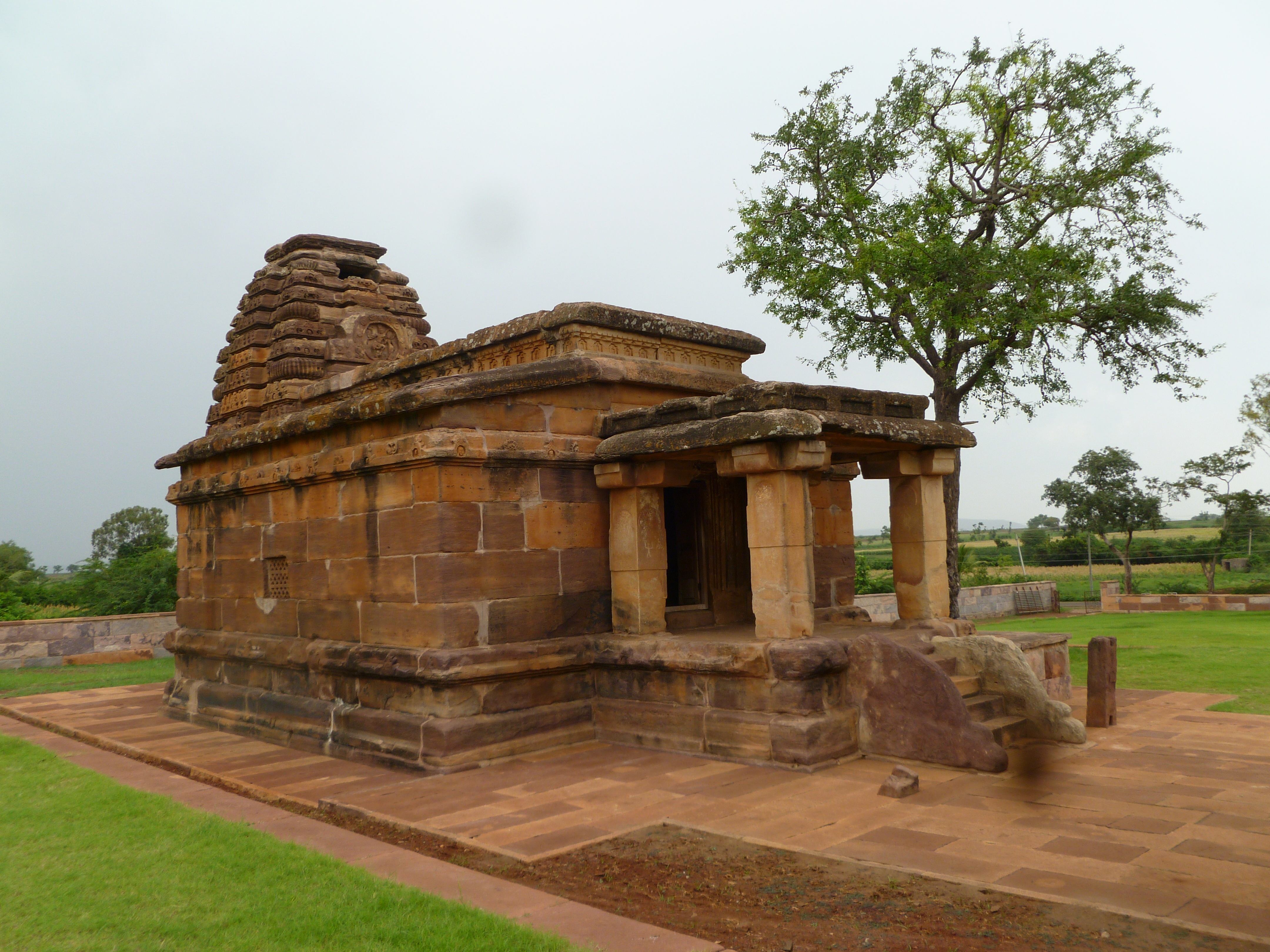 Temple at Aihole